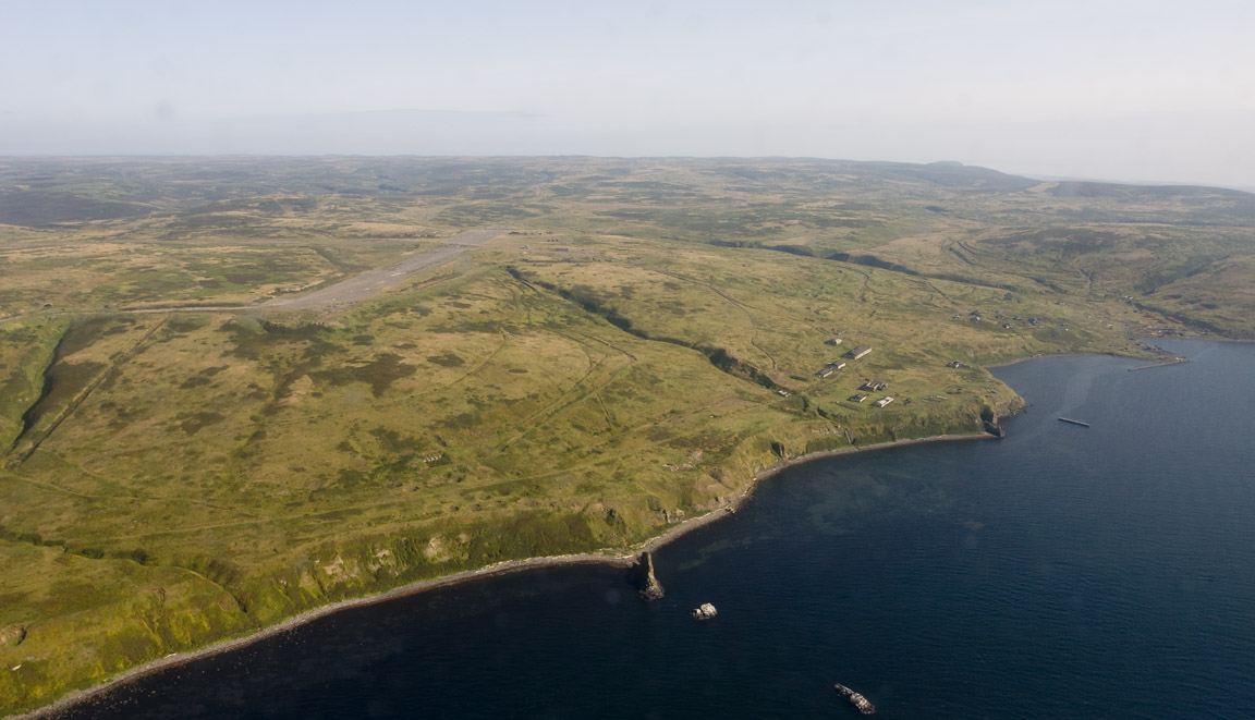 Shumshu island. Abandoned Baikovo village and old japanese airport.